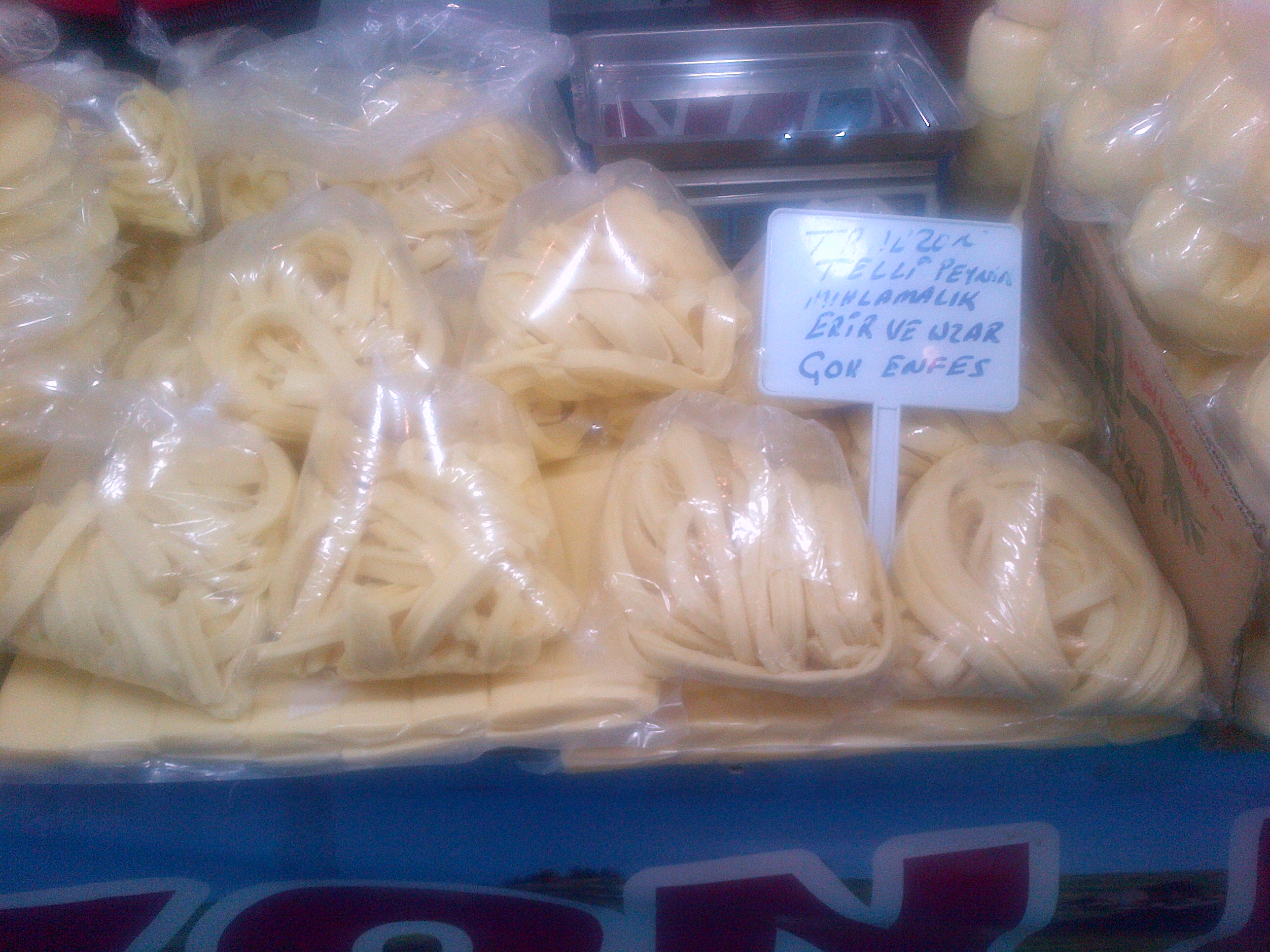 "Telli peynir", a sort of string cheese fom Trabzon, Turkey.